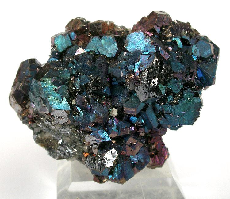 Galena Locality: West Fork Mine, Centerville, Viburnum Trend District, Reynolds County, Missouri, USA (Locality at ) Size: 5.7 x 4.5 x 2.8 cm. A fine specimen from the much less well-known West Fork Mine of Missouri’s famous Viburnum Trend. The modified, cuboctahedral galena crystals have this incredible coating of supremely iridescent, peacock-blue and magenta. I have seen very few Viburnum Trend galenas with this unreal iridescence. Ex. Wes Parker Collection.